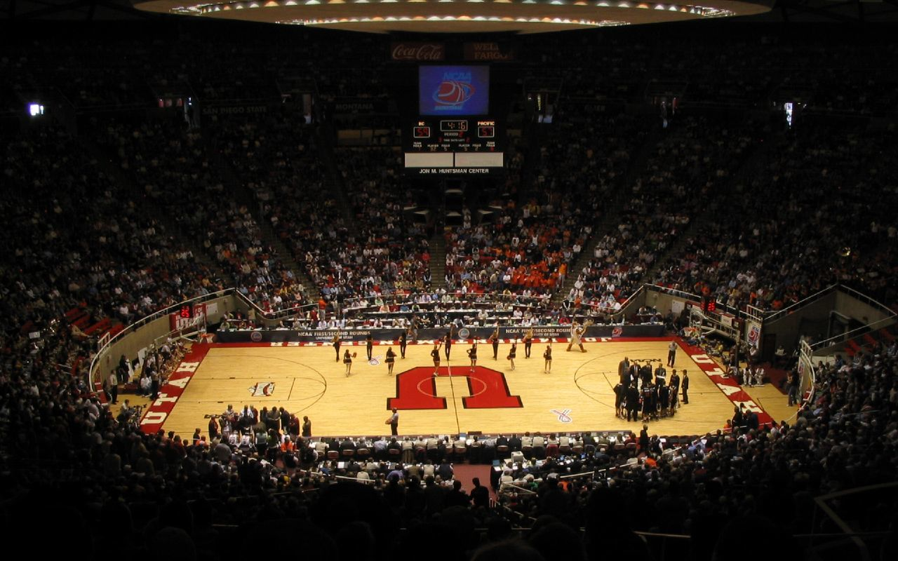 4th seeded Boston College (in white) vs. 13th seeded University of the Pacific (Stockton, California) (in black) in the 1st round of the 64 team NCAA tournament. They were in the Minneapolis Regional Game in Salt Lake City. Boston College won in a double overtime thriller 88-76. Even though the final score wasn't as close, Boston College came perilously close to being upset twice during the final minutes of the game and the first overtime.